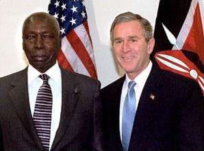 Daniel arap Moi, the President of Kenya, and George W. Bush, the President of the United States at the United Nations Headquarters in New York City, New York, USA, 2001.